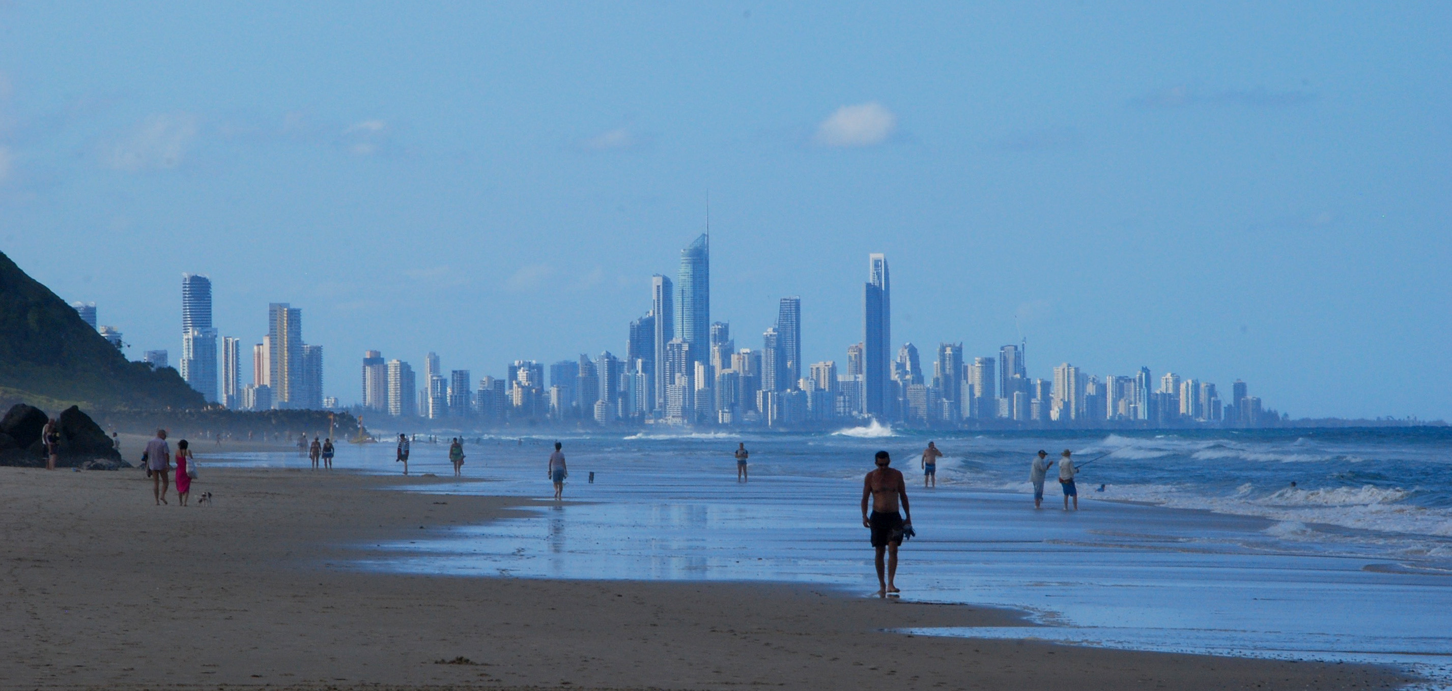 Palm Beach, Queensland View towards the Gold Coast